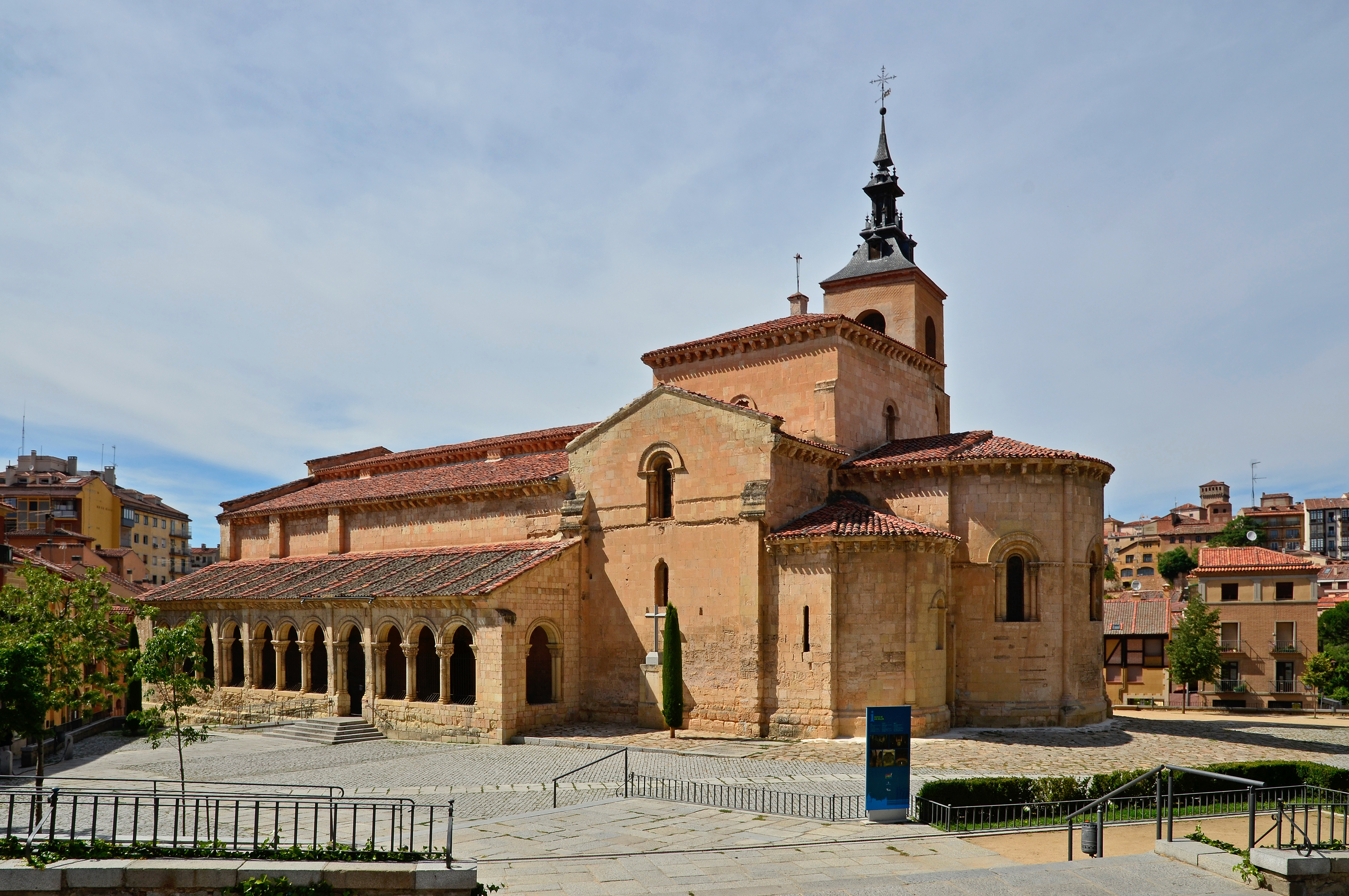 Church of San Millán, Segovia, Spain.